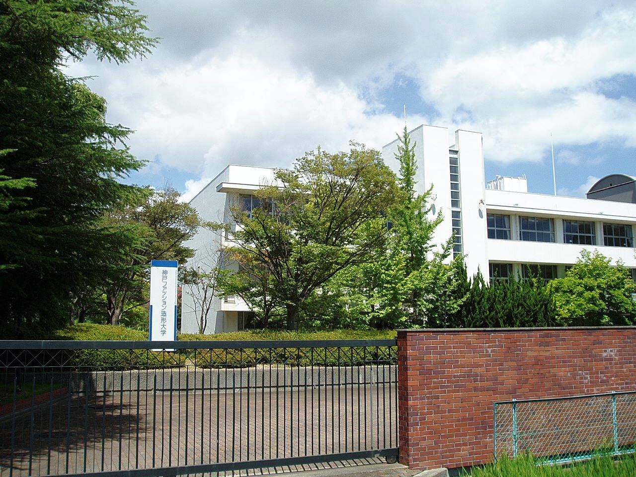 The main gate of Kobe University of Fashion and Design located in Akashi, Hyogo, Japan.